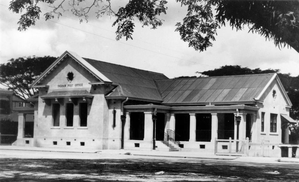 Ingham Post Office, Queensland, ca. 1935 Newly-built Post Office building with corrugated iron roof and rendered? walls. The building has solid square columns and round decorative porthole windows at the gable ends of the two sections. The entry steps have a wrought iron railing.